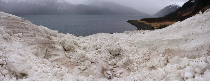 Erin McKittrick, Ground Truth Trekking, own work